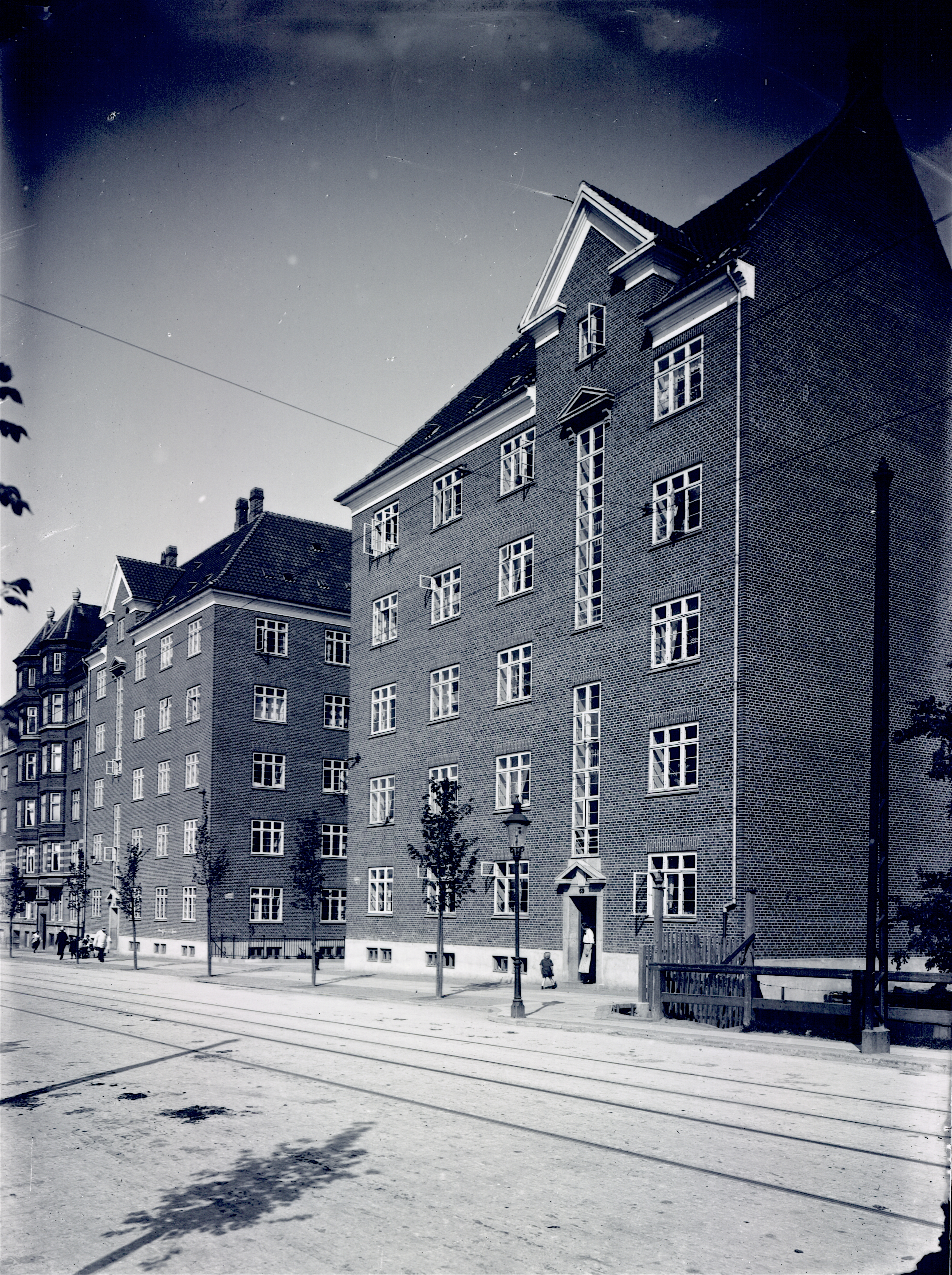 Enghavevej 67 and 69, Copenhagen.